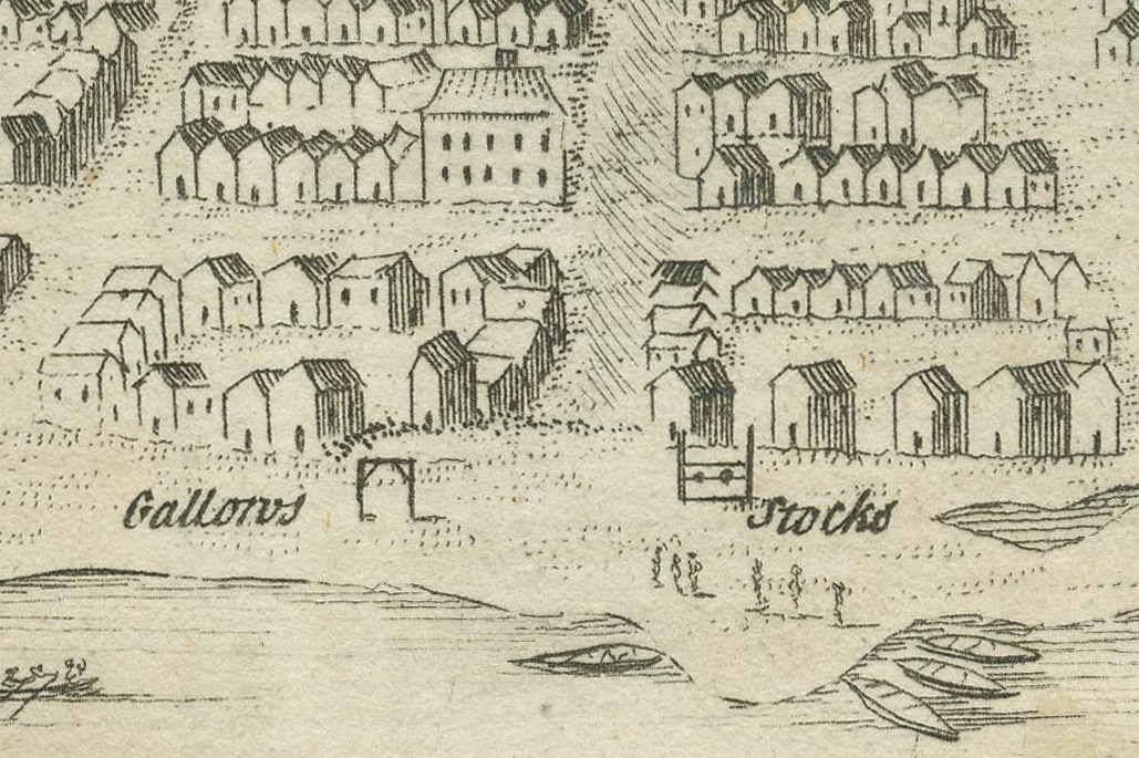 View from the top mast - inset, Halifax, Nova Scotia 1750